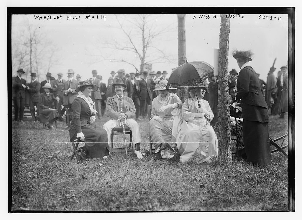 Wheatley Hills Golf Club, May 9, 1914 -- Miss H. Eustis Bain News Service, publisher. Wheatley Hills, 5/9/14 -- Miss H. Eustis 5/9/14 (date created or published later by Bain) 1 negative : glass ; 5 x 7 in. or smaller. Notes:Title from unverified data provided by the Bain News Service on the negatives or caption cards.Forms part of: George Grantham Bain Collection (Library of Congress). Format: Glass negatives. Repository: Library of Congress, Prints and Photographs Division, Washington, D.C. 20540 USA, General information about the Bain Collection is available at Persistent URL: Call Number: LC-B2- 3093-11